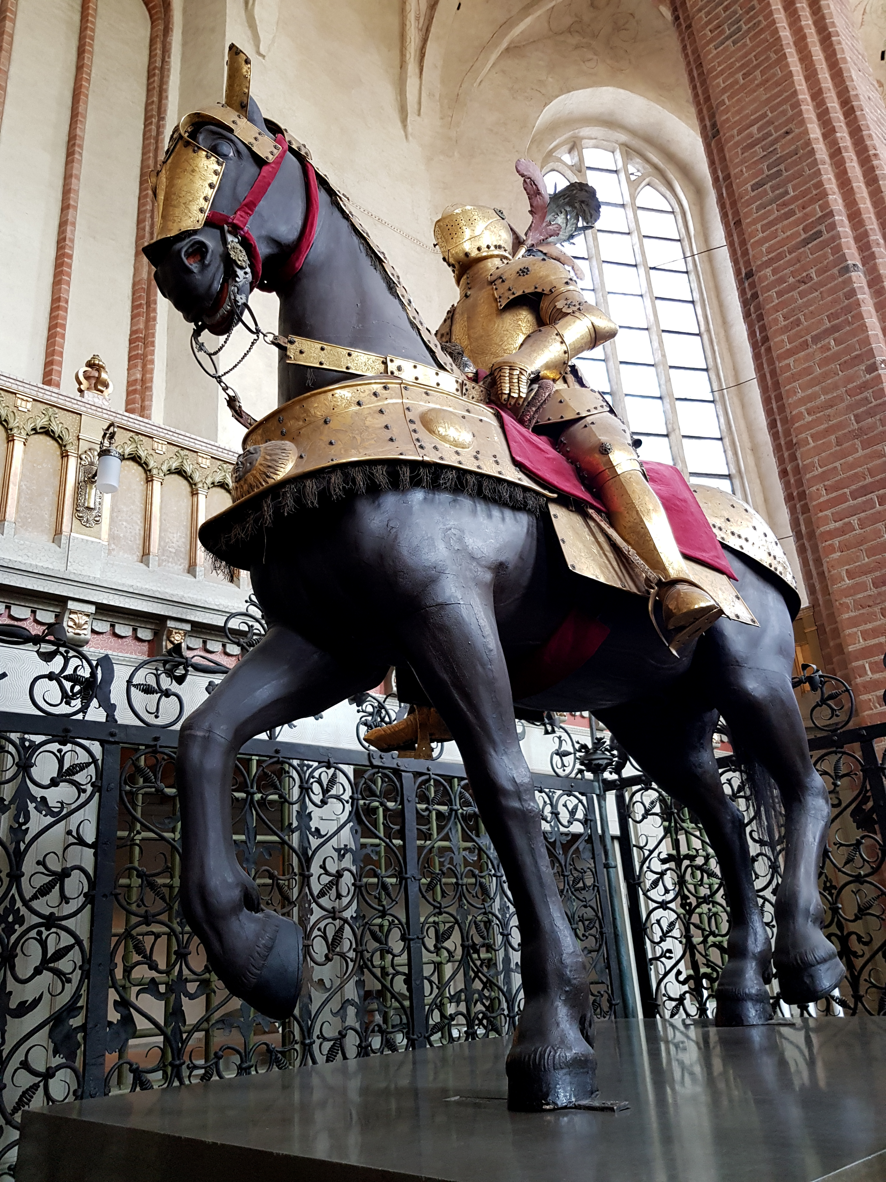 Grave monument over the family crypt of King Carl IX of Sweden in Strängnäs Cathedral.